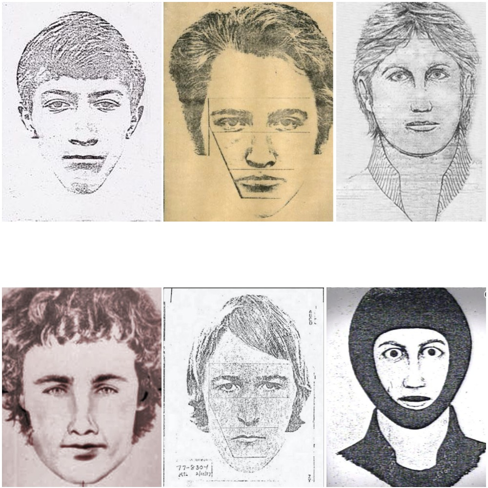 Various sketches of the East Area Rapist